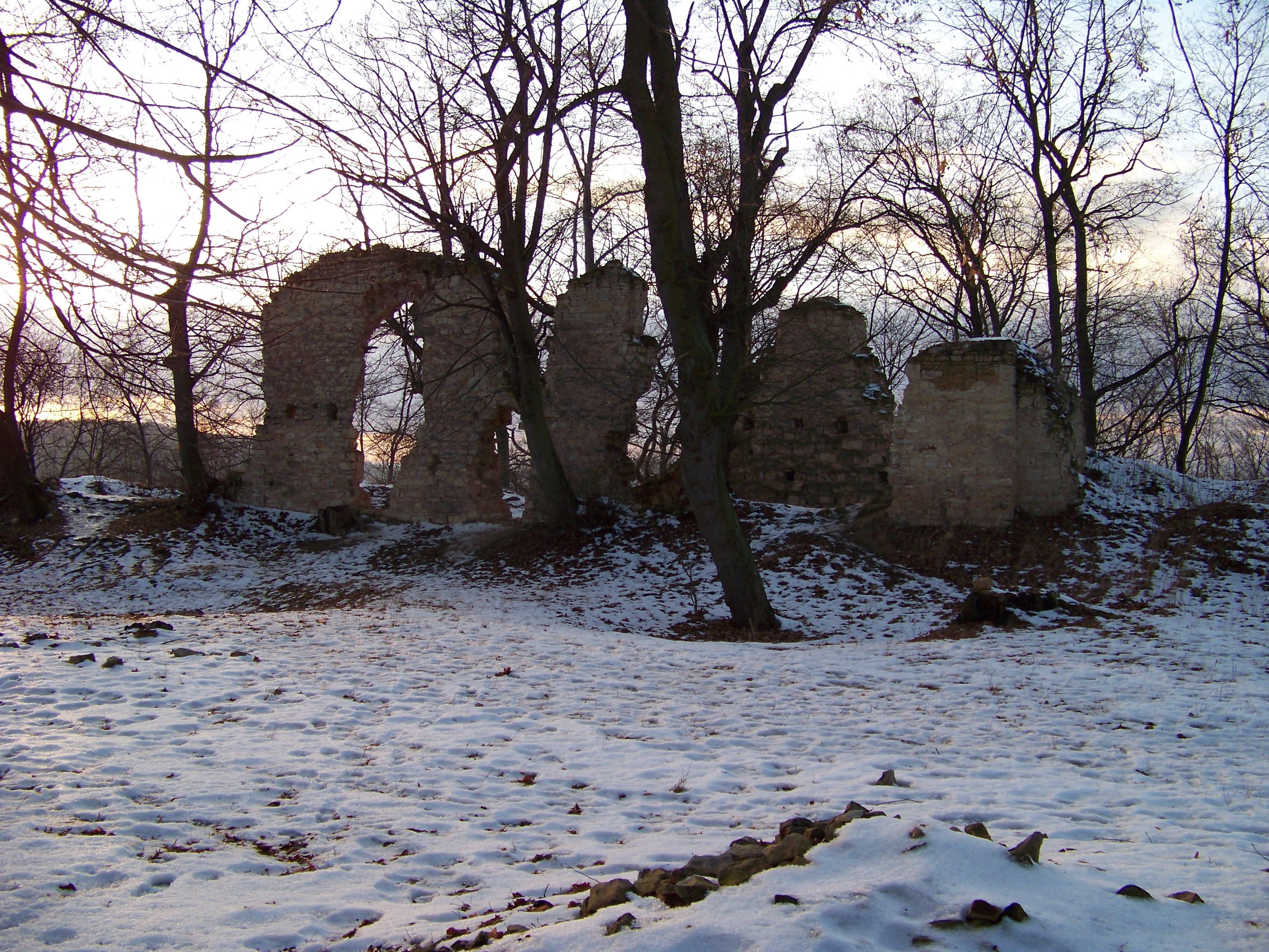 Ruin of Pravda Castle. Pnětluky, Louny District, the Czech Republic.